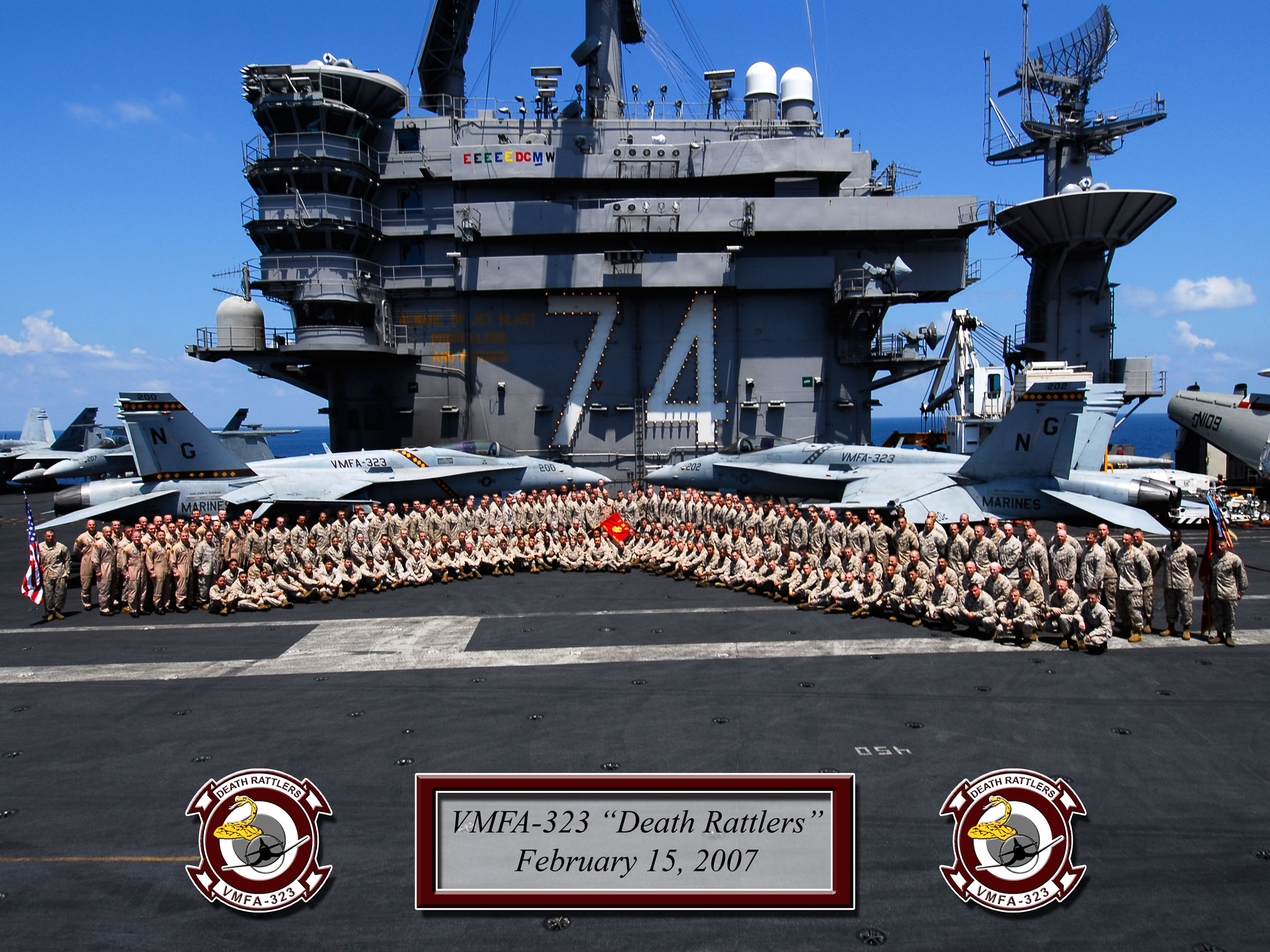 VMFA-323 squadron photo aboard Stennis with 2 F/A-18's behind. The aircraft are shown with tail code NG instead of their usual WS while deployed as part of CVW-9. Image was downloaded from